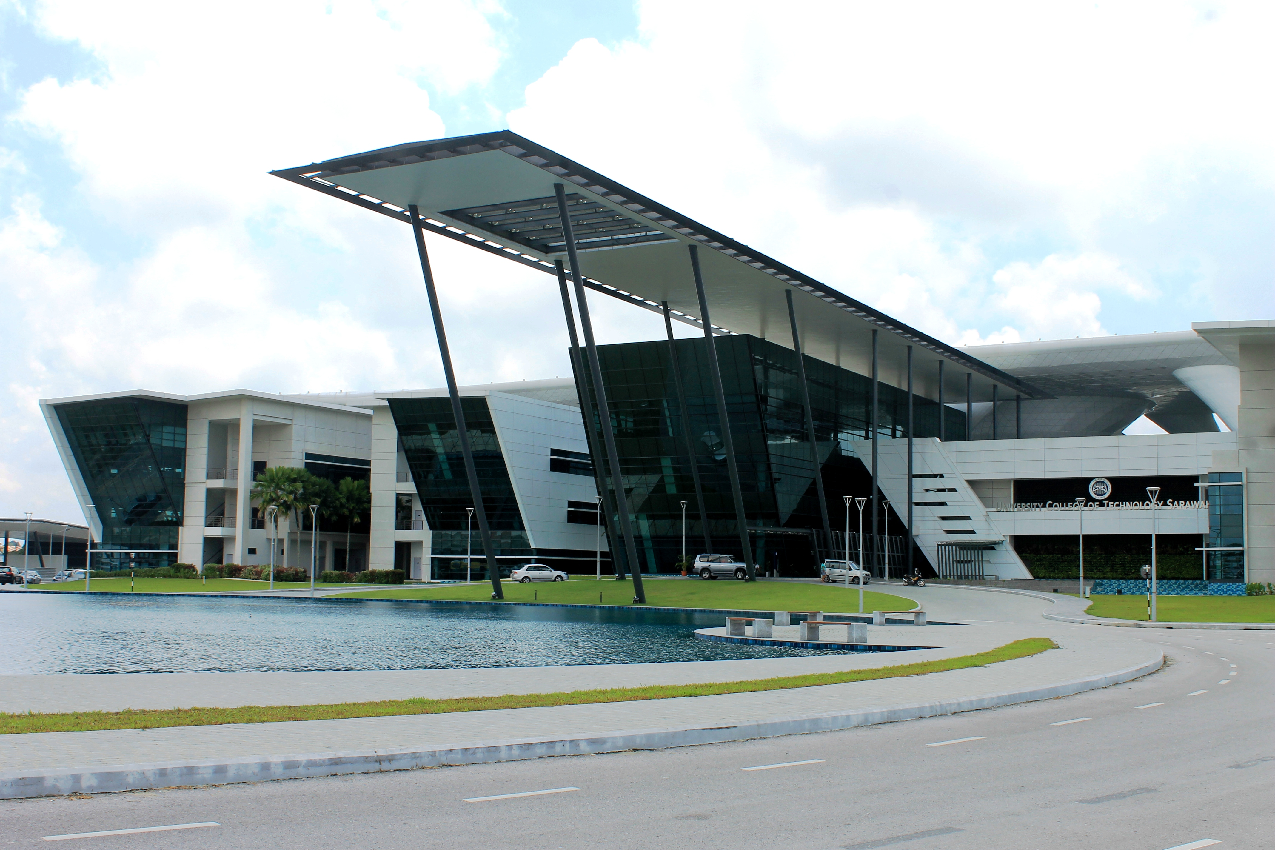 Main building of University College of Technology Sarawak, Sibu, Sarawak, Malaysia.